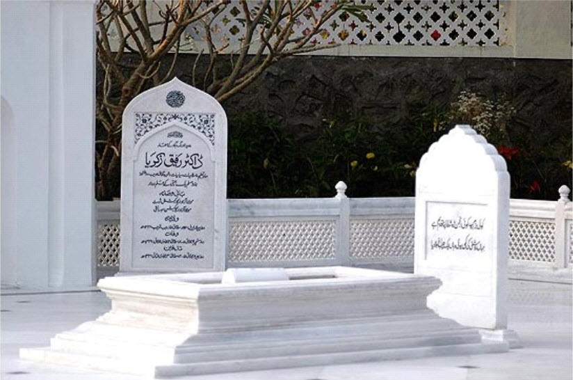 Tomb of Rafiq Zakaria, Rauza Bagh Aurangabad.